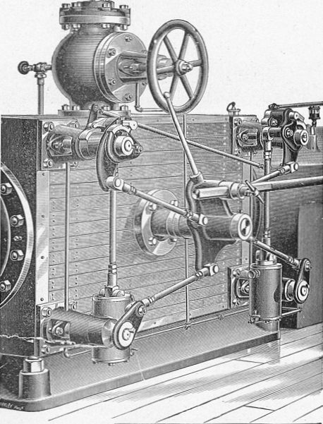 Corliss valvegear, Gordon's improved (New Catechism of the Steam Engine, 1904).jpg